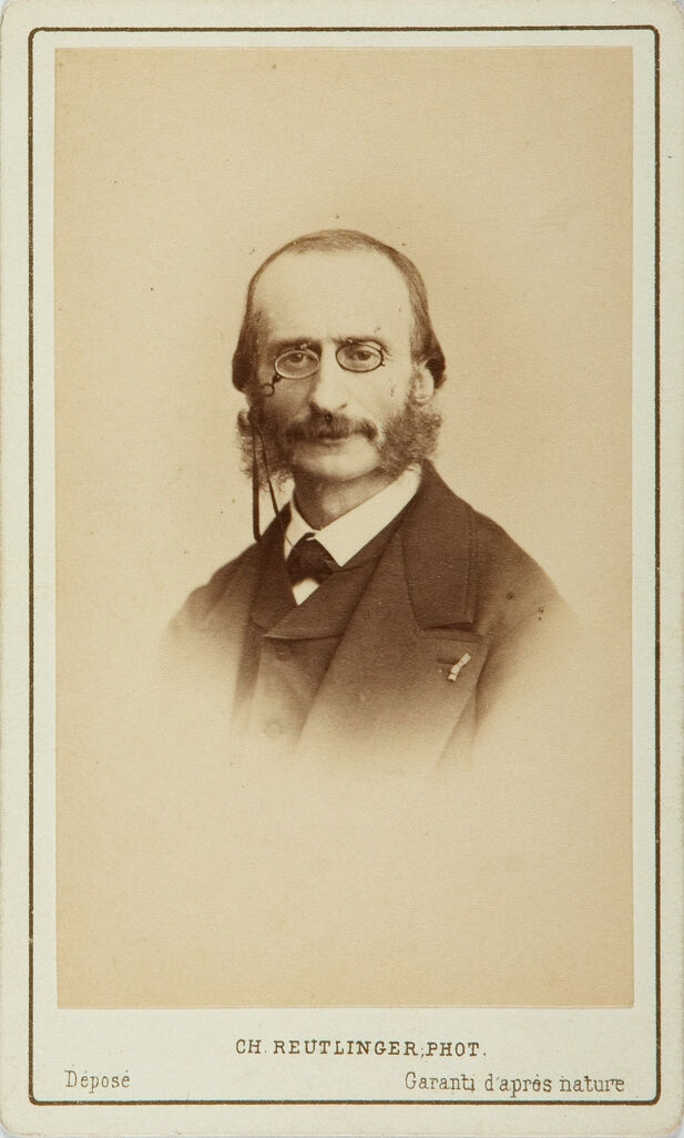 Jacques Offenbach, German composer (1819 - 1880). Carte De Visite by Charles Reutlinger, Paris.